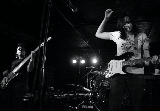 Mrs Danvers opening for the Cliks and Hunter Valentine in 2009. Photo: Lauren Keefe - TeaParty Boston